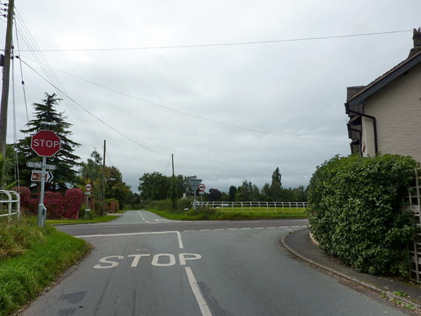 Cross roads, Balterley Heath